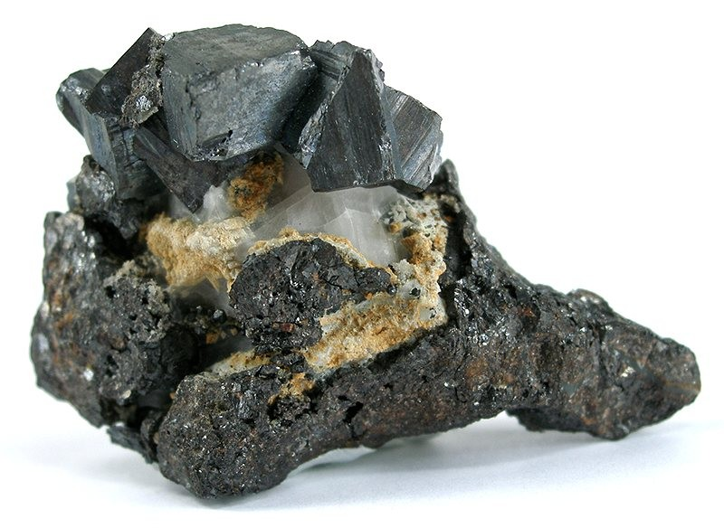 Ullmannite Locality: Masaloni Mine, San Vito, Cagliari Province, Sardinia, Italy (Locality at ) Size: 5.4 x 3.3 x 2.1 cm. This superb rarity features SHARP and LUSTROUS crystals to a full centimeter, perched up in a mound to make for a very attractive specimen of this usually not very attractive species. Sarrabus is a very important, ancient silver district. Ullmannites are one of those rare bystanders that so sadly, few were saved of. What is amazing about this specimen is that the piece actually has some display aesthetics whereas most are embedded in massive, ugly ore. From the collection of Gianguido Giannobi.